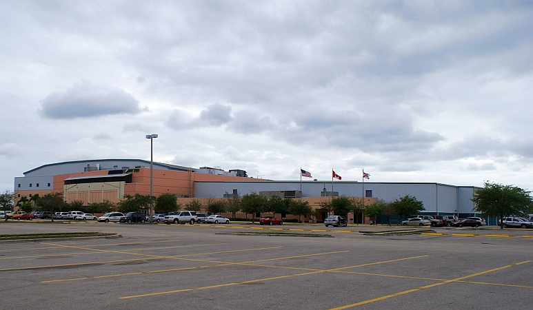 A photograph of Germain Arena, from the northwest corner of the parking lot.